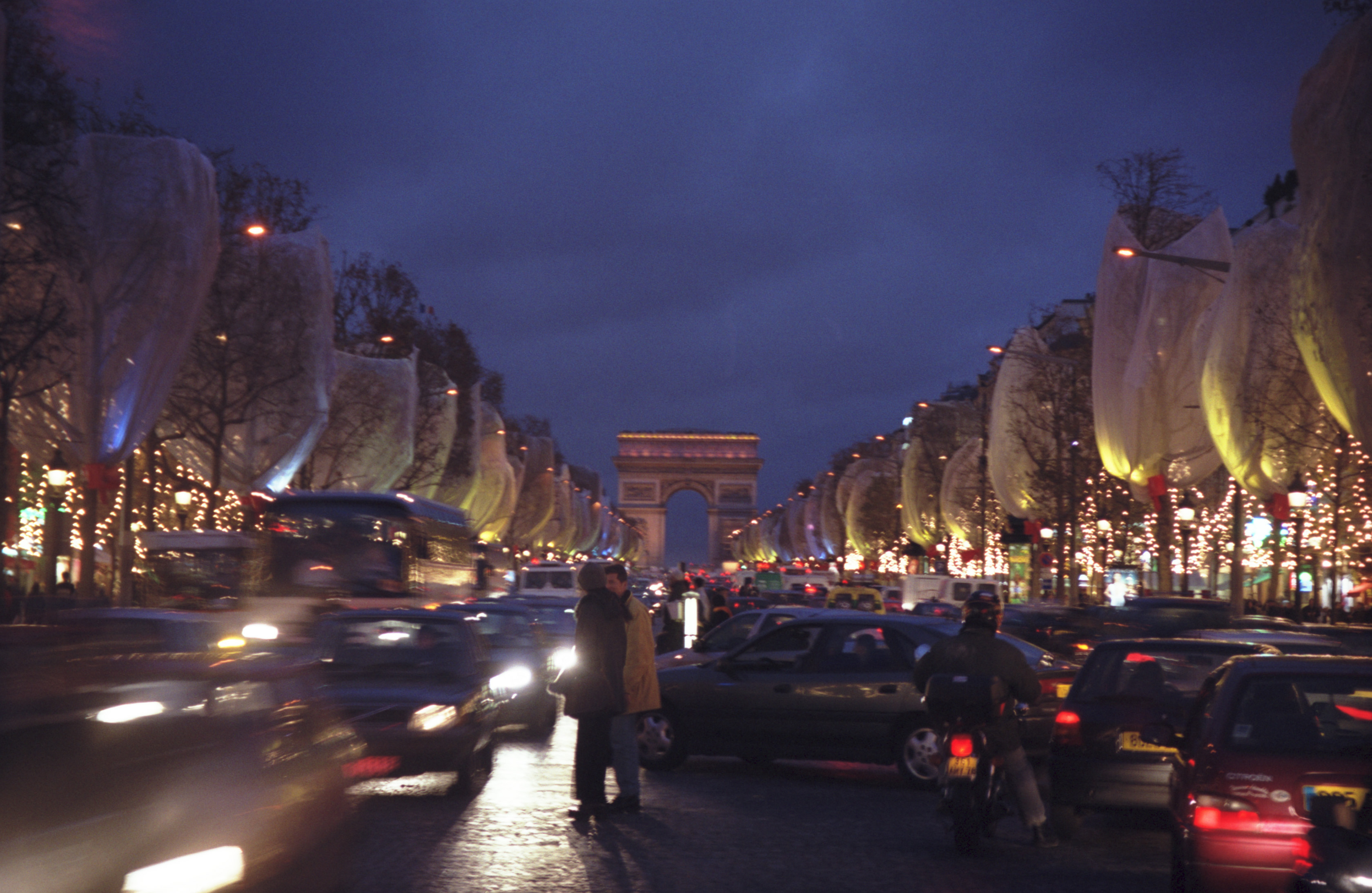 View along the Champs-Élysées, Paris, towards the Arc de Triomphe.